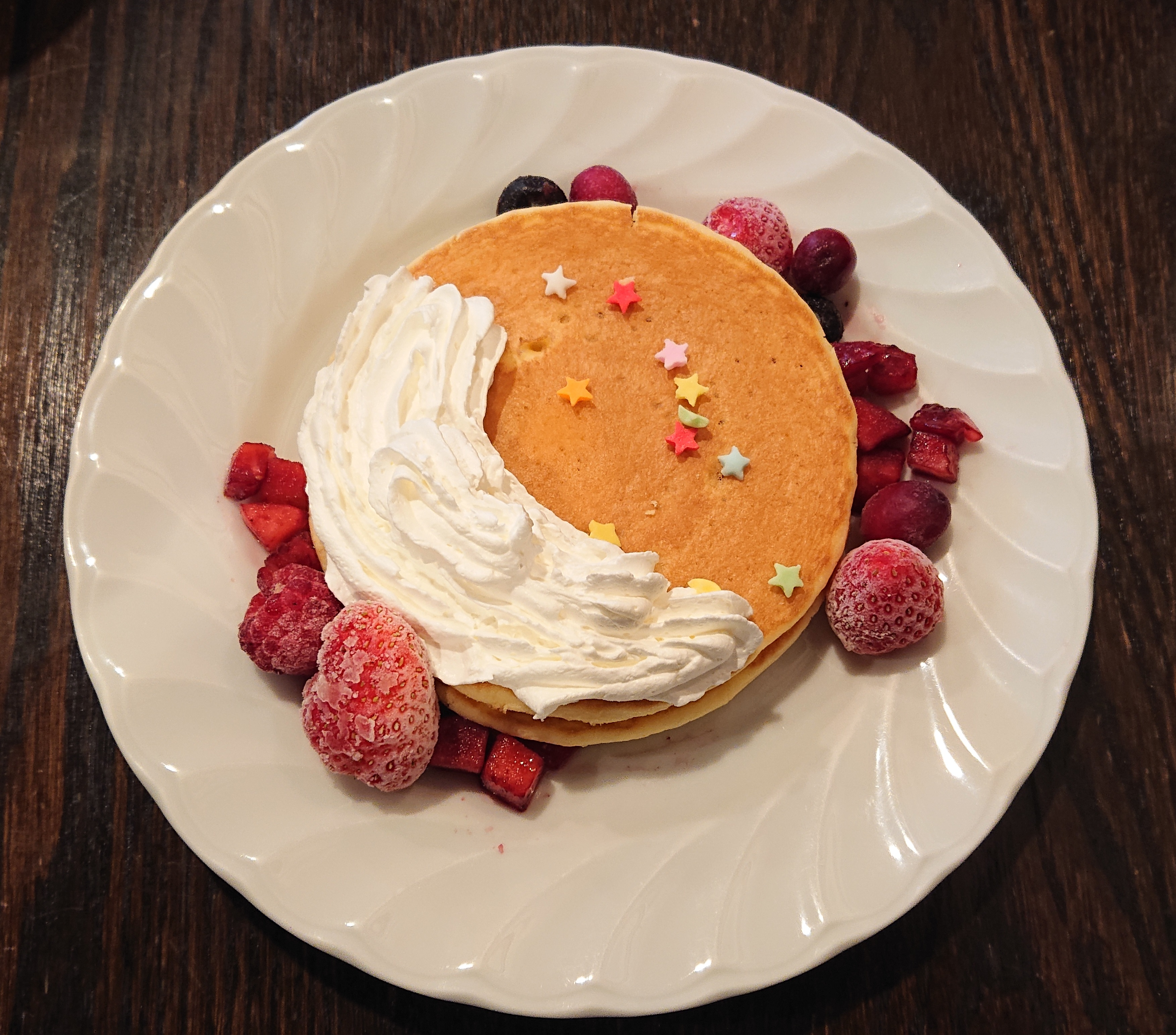 This is Tsuki no Michikake Pancake (pancake of the phases of the moon) served by Cure Maid Café in Akihabara, Tokyo, Japan. It was a collaboration menu with the TV animation "Asteroid in Love".